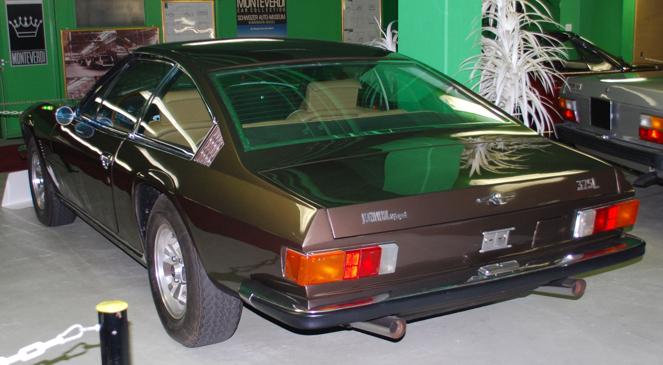 Monteverdi High Speed 375L with body by Fissore